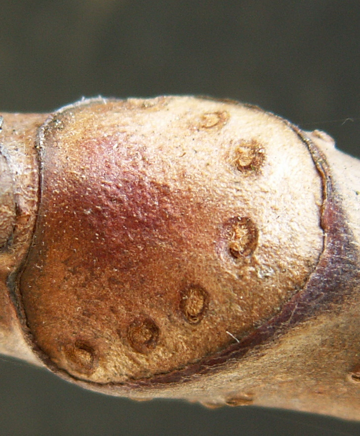 Aesculus hippocastanum: horseshoe-shaped leaf scar